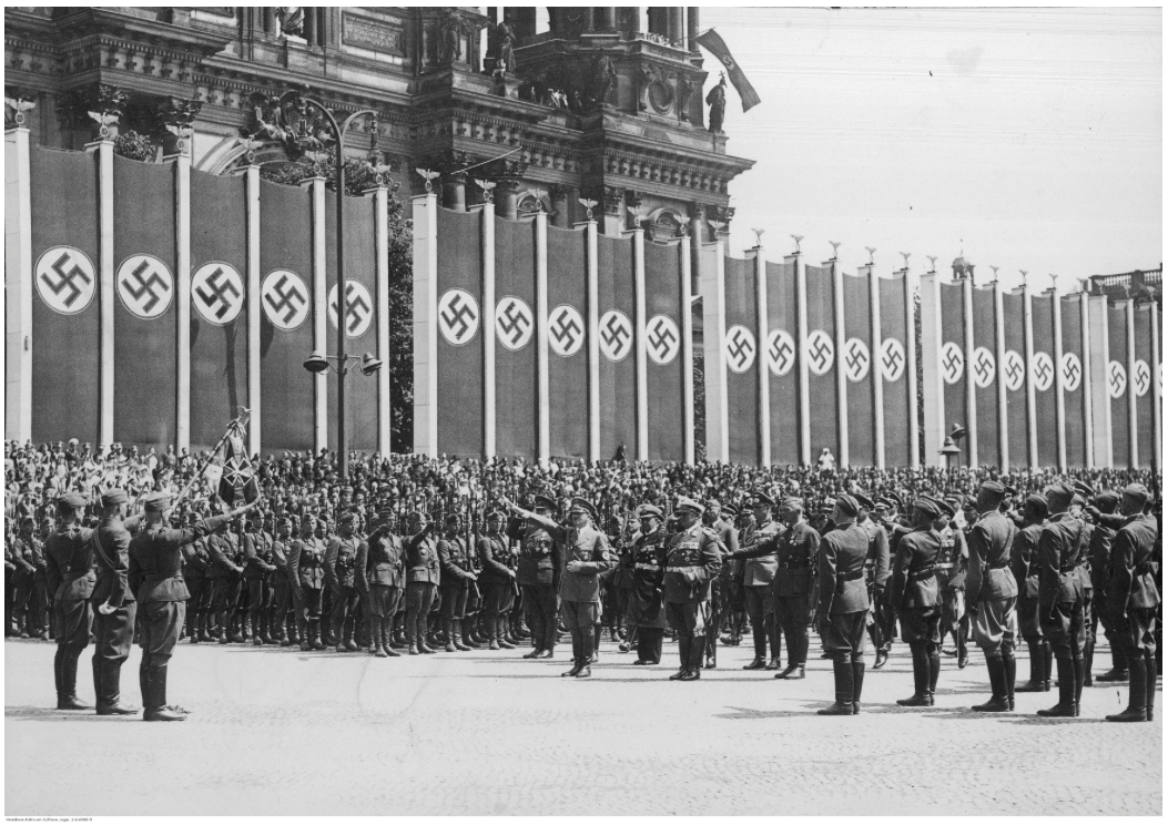 Hitler brings a greeting to the Legion Condor, which has returned from Spain.